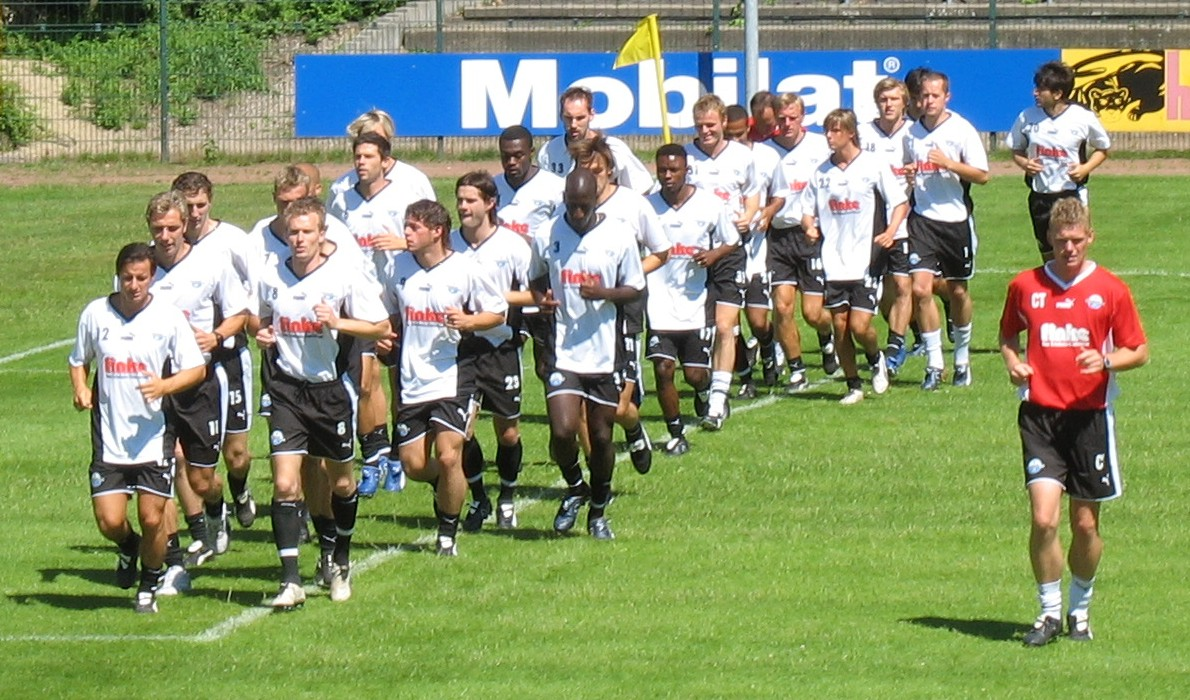 The SCP team warming up in the Hermann-Löns stadium, with former second coach Markus Gellhaus